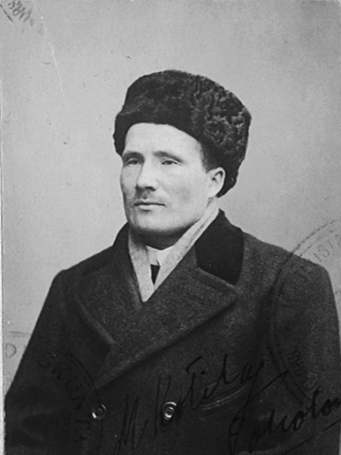 Passport photograph of the Finnish member of Parliament Matti Miika Jaakonpoika Kotila (1887–1953).